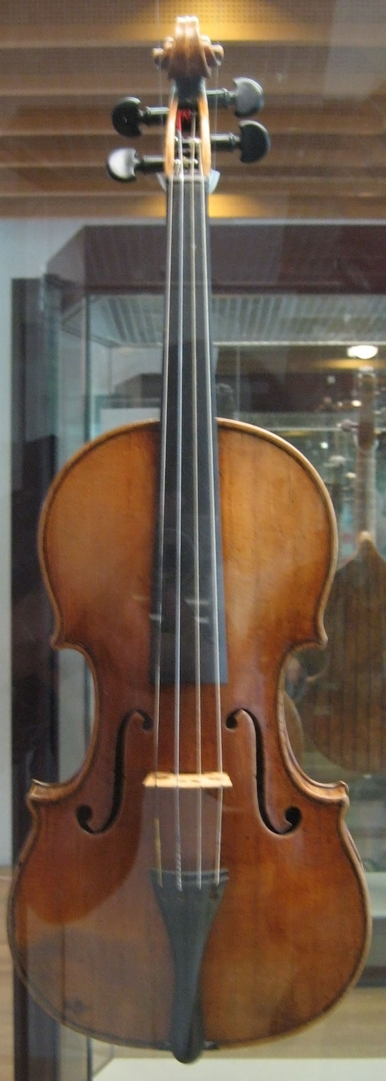 The front view image of the Antonio Stradivari violin of 1703. Picture taken at the Musikinstrumenten Museum, Berlin.